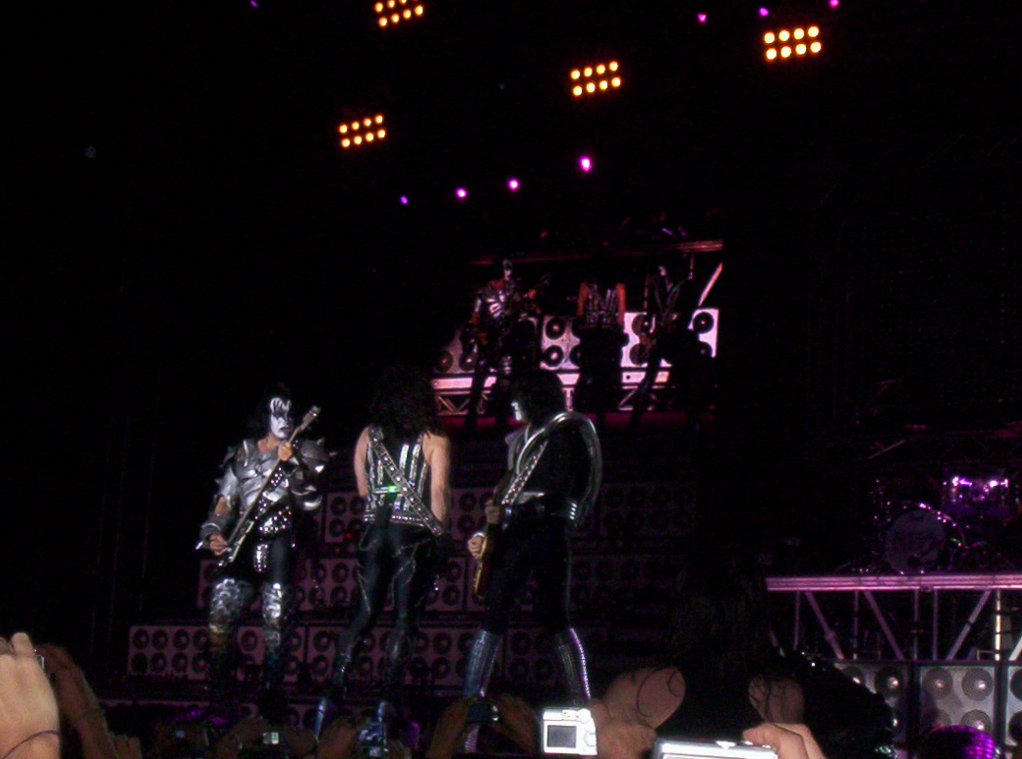 Kiss en Bogotá el 11 de abril de 2009